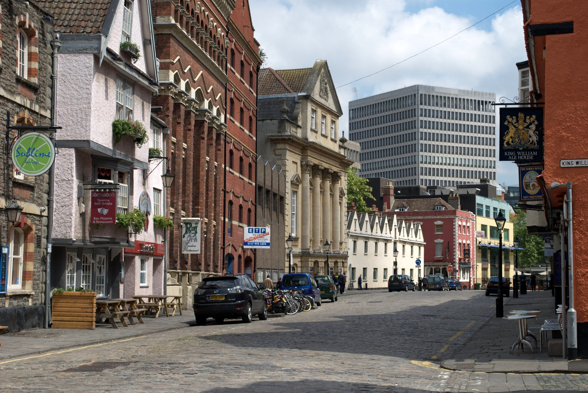 King Street, Bristol. Image contains annotations detailing the locations of several notable buildings